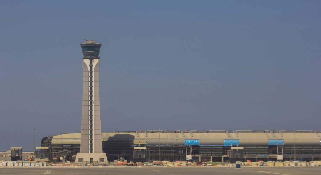 New ATC tower(Oman's tallest tower 97 meters) and terminal 2 under construction at Muscat Airport, Oman